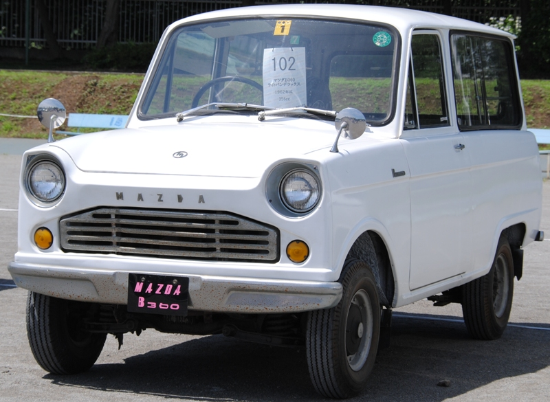 1962 Mazda B360.